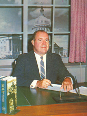 Milton W. Glenn, US Representative from New Jersey